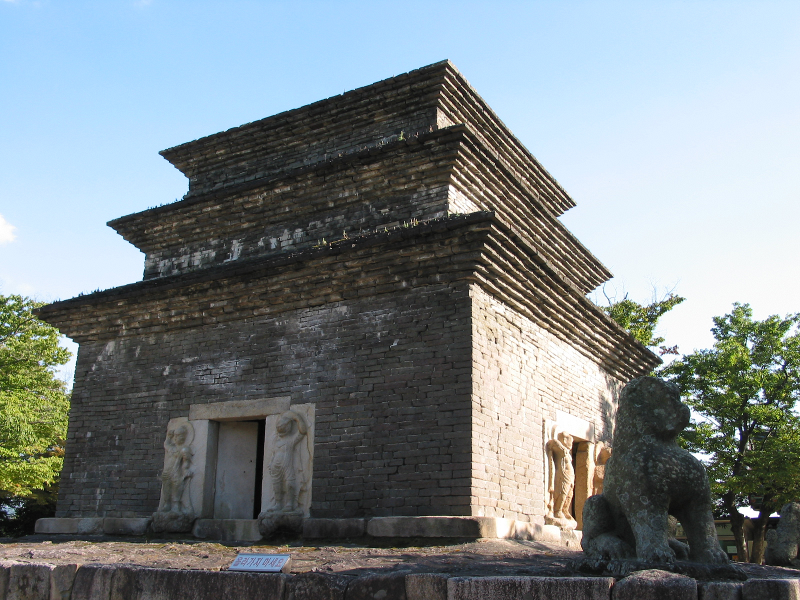 The pagoda at Bunhwangsa is based on Tang prototypes. Debris has now filled up the interior. It is believed to have been seven or nine stories in height.